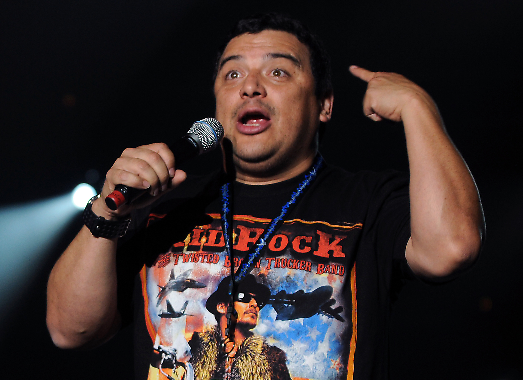 Carlos Mencia performing during the Tour for the Troops concert at Incirlik Air Base in Turkey on December 1, 2009